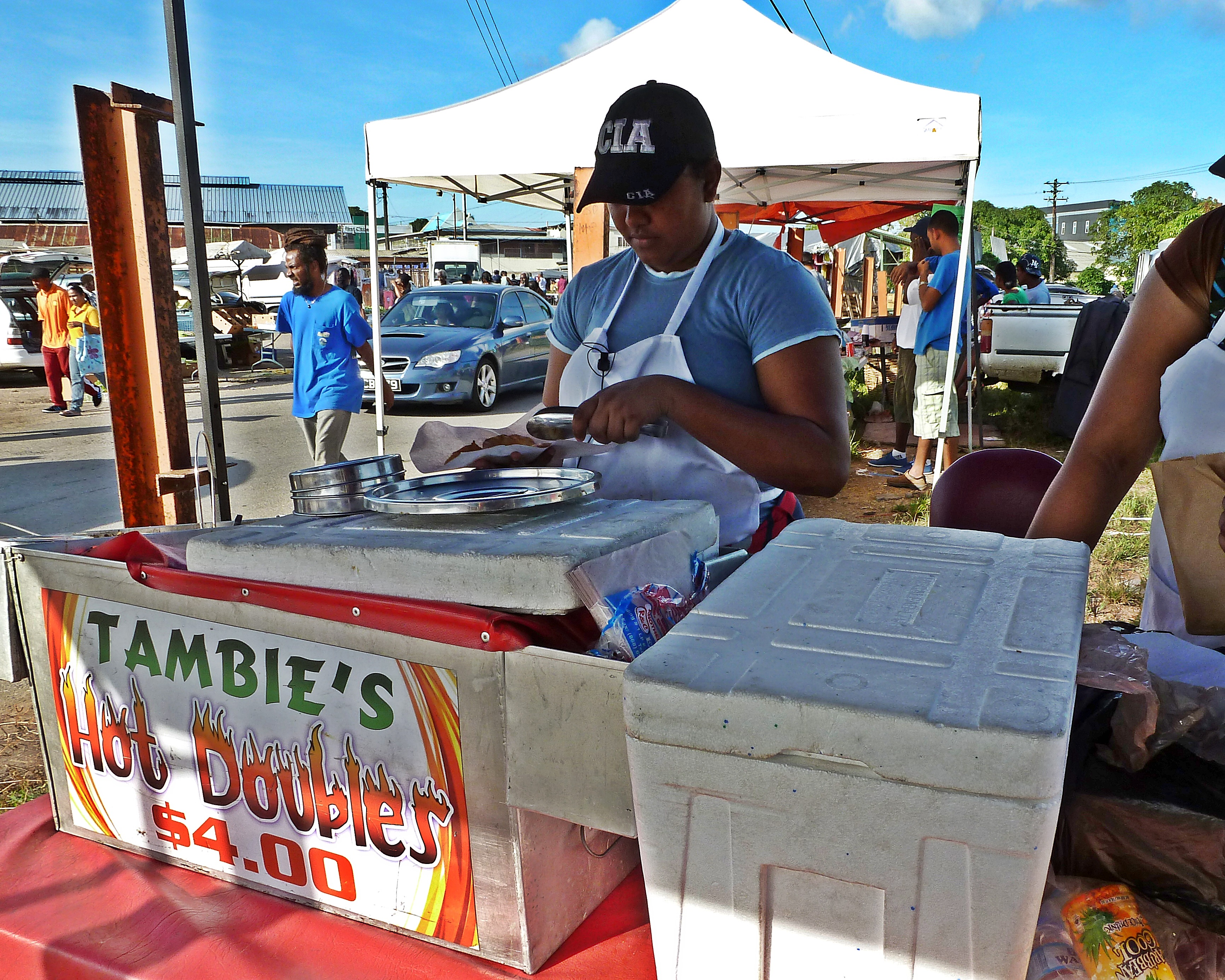 One of the many Doubles vendors in Marabella, South Trinidad